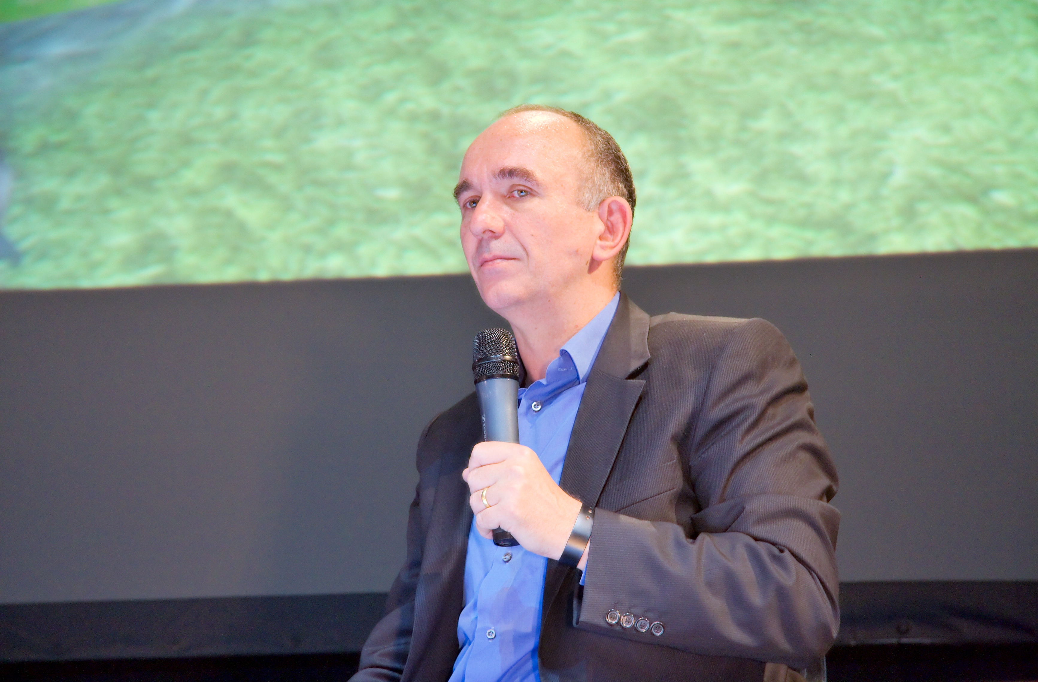 Presentation of Fable 2 with Peter Molyneux at Festival du jeu vidéo 2008 (Paris, France).